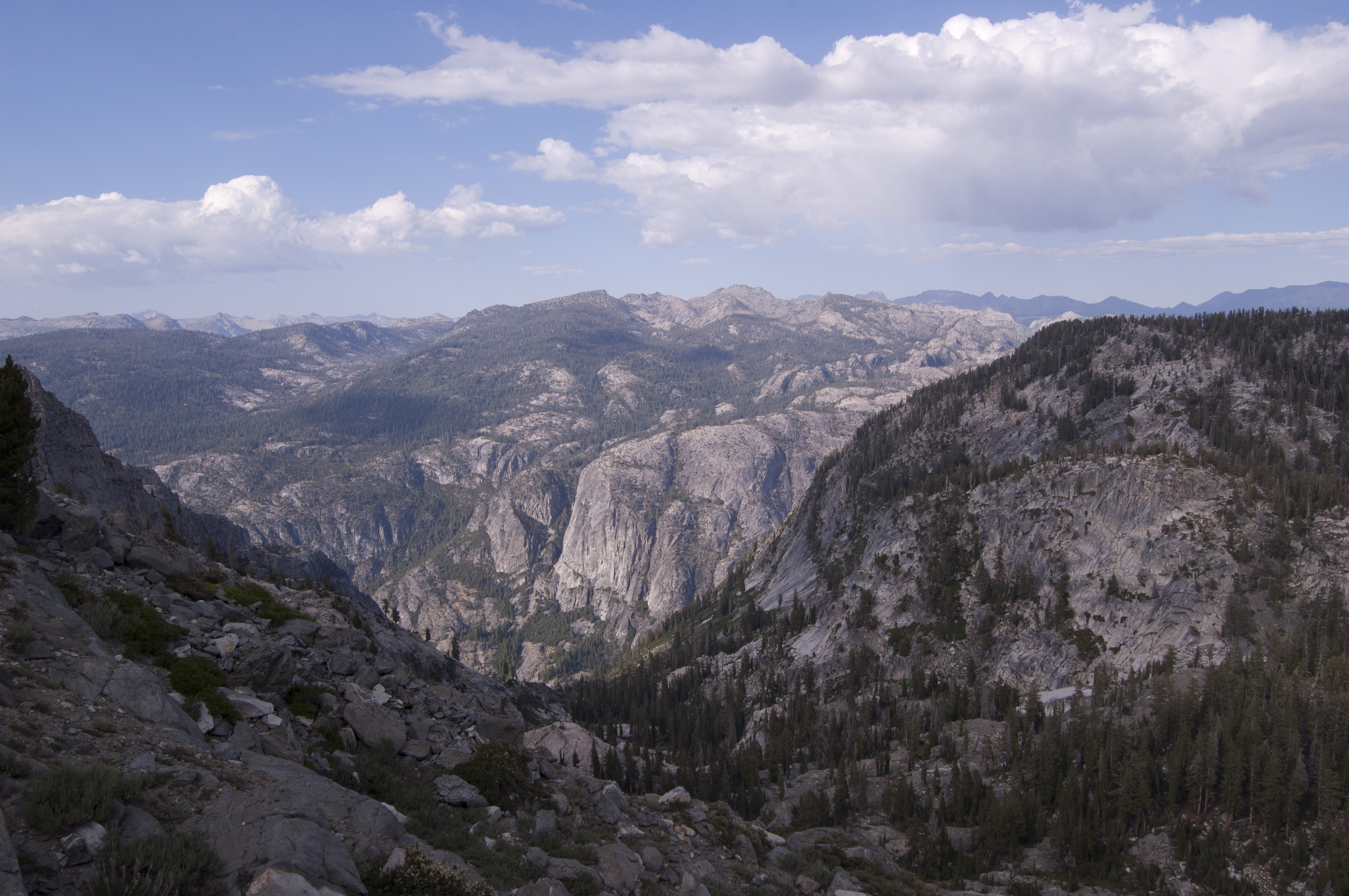 View down into the Grand Canyon of the Tuolumne